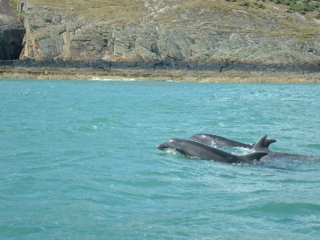 Bottle Nose Dolphins. Taken between St Tudwal's Island West and mainland